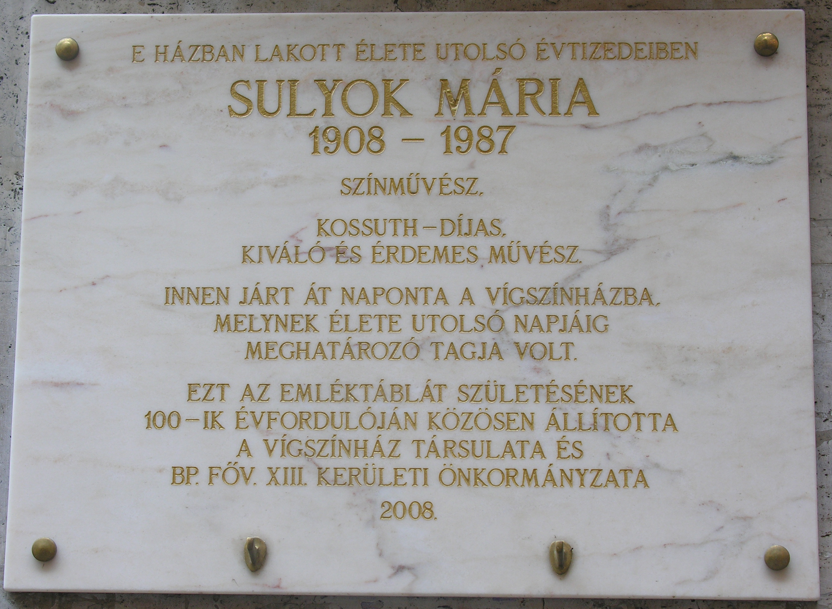 Commemorative plaque of Mária Sulyok in Budapest District XIII, Hollán Ernő Street No 10